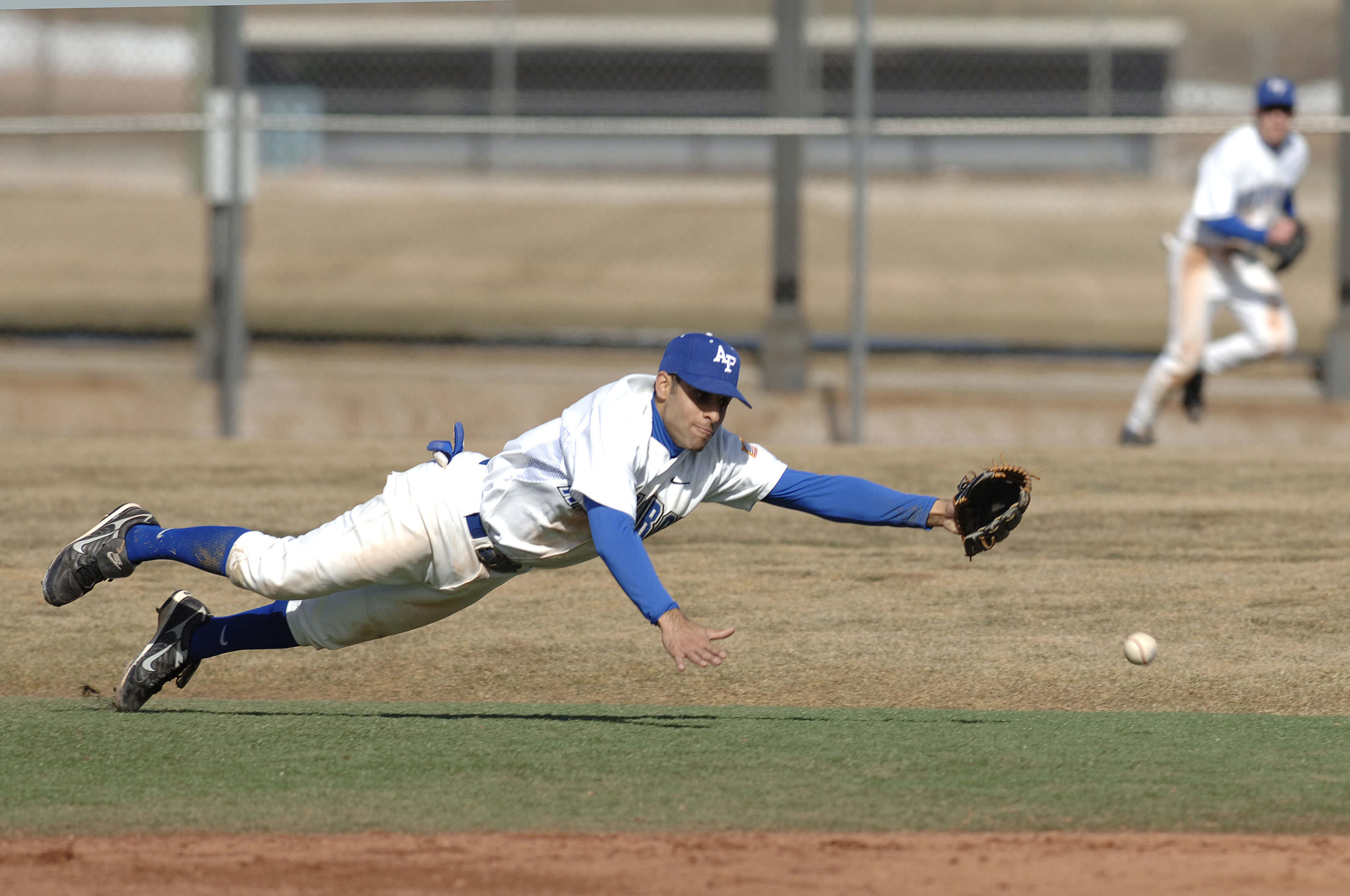 Freshman Air Force Academy cadet KJ. Randhawa dives for a hard-hit ground ball during play against the Northern Colorado University Bears Feb 10. He is the shortstop for the Falcons baseball team